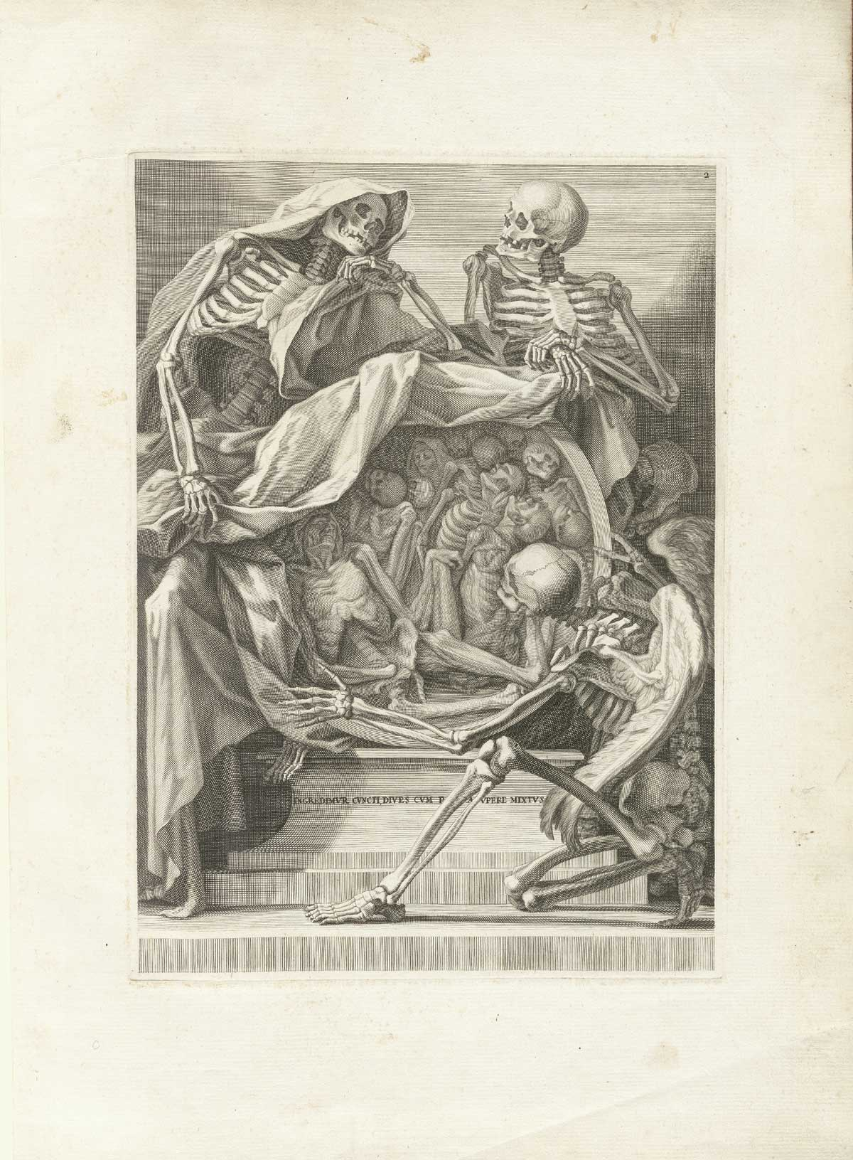 Bernardino Genga's Anatomia per uso et intelligenza del disegno (Rome: Domenico de Rossi, 1691). Image in the public domain because the artist/author died more than 100 years ago.